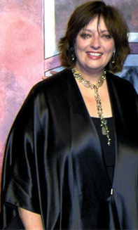 Angela Cartwright, Nov. 10, 2005, Tavern on the Green: "The Sound of Music" press event